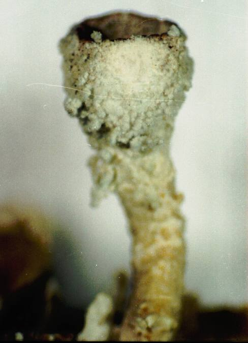 Cladonia carneola (Fr.) Fr., 1831 Photograph of a herbarium specimen taken through a dissecting microscope (x26) showing a yellow-green, sorediate, cup-shaped podetium. Cladonia carneola was growing on a rock off Kelley Point Road in Jonesport, Washington County, Maine, USA (Lat. 44o31.9' N, Long. 67o34.5' W). Collected by E.C. Uebel, and identified by Dr. David H.S. Richardson (No. U-172, 14 Jun 2001).